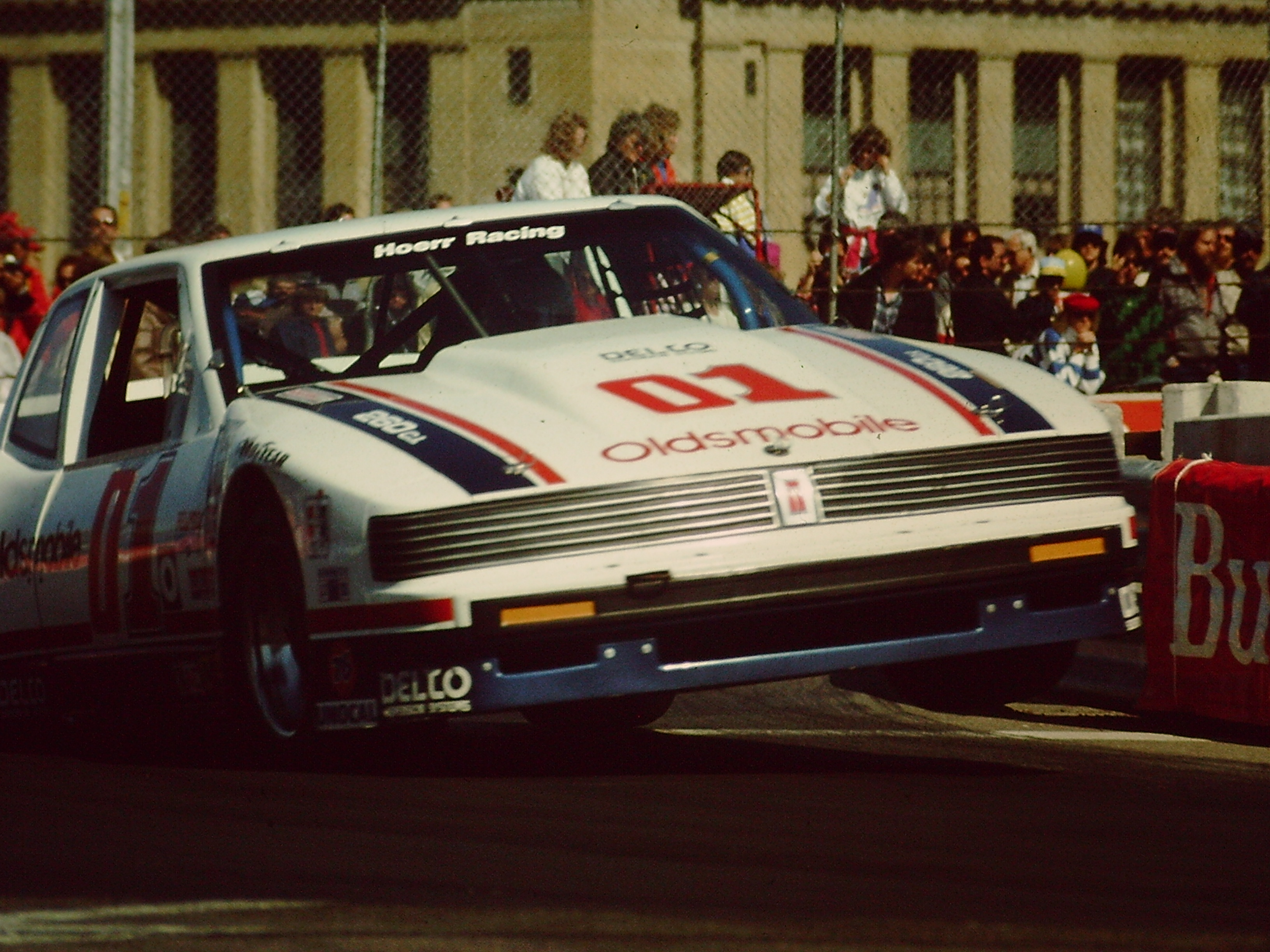 Robin McCall in the Hoerr Racing IMSA GTO Oldsmobile Toronado. Photo taken at the 1987 IMSA Columbus 500 (Columbus, Ohio)